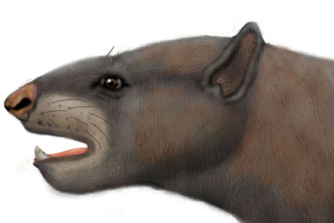 Life restoration of Trigonostylops wortmani.